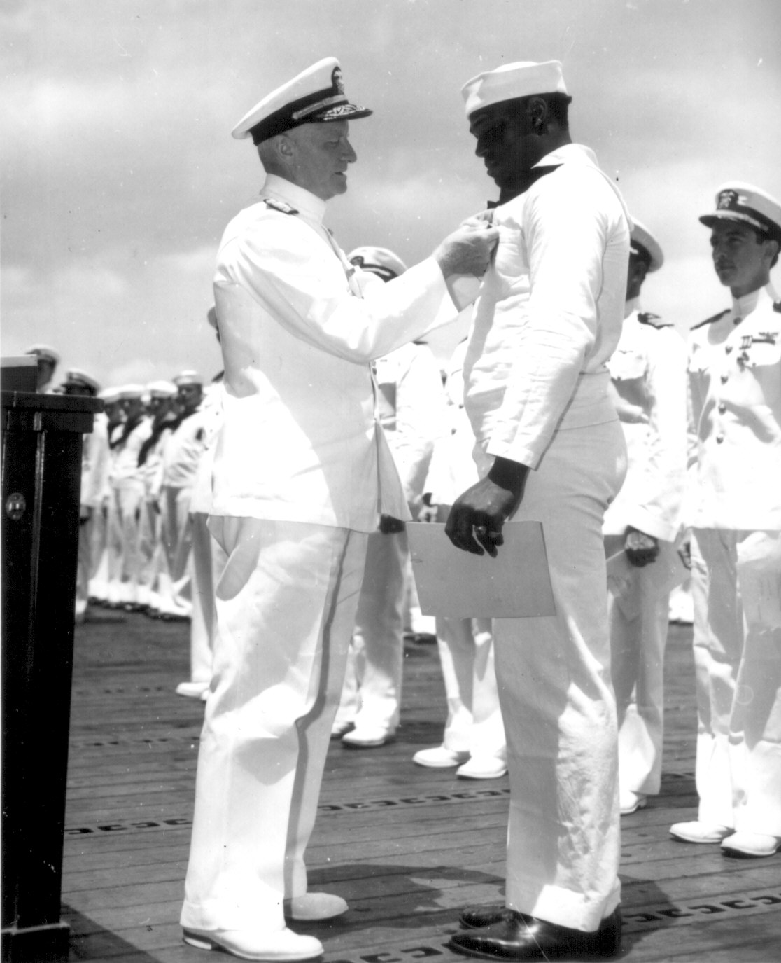 Admiral Chester W. Nimitz pins Navy Cross on Doris Miller, at ceremony on board the USS Enterprise (CV-6) at Pearl Harbor, May 27, 1942